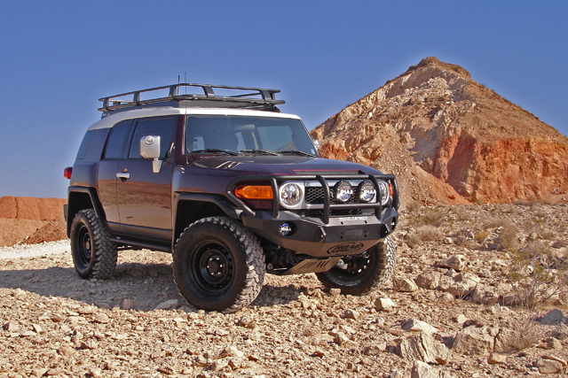 A modified Toyota FJ Cruiser with steel front and rear bumpers, rock rails, skid plates, roof rack, suspension lift, and mud terrain tires.